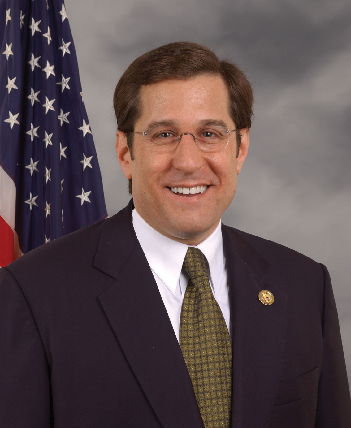 Steve Rothman, U.S. Congressman (D-New Jersey, 1997-present)